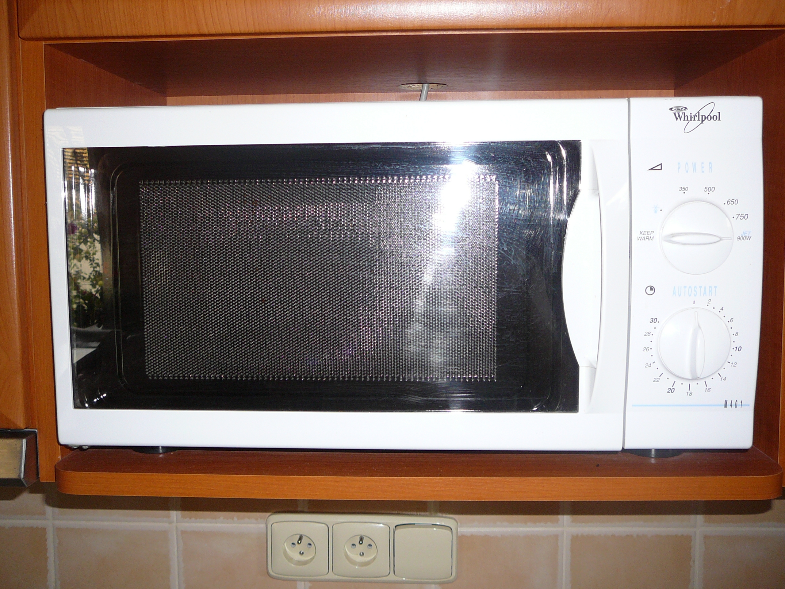 Whirlpool microwave oven M401